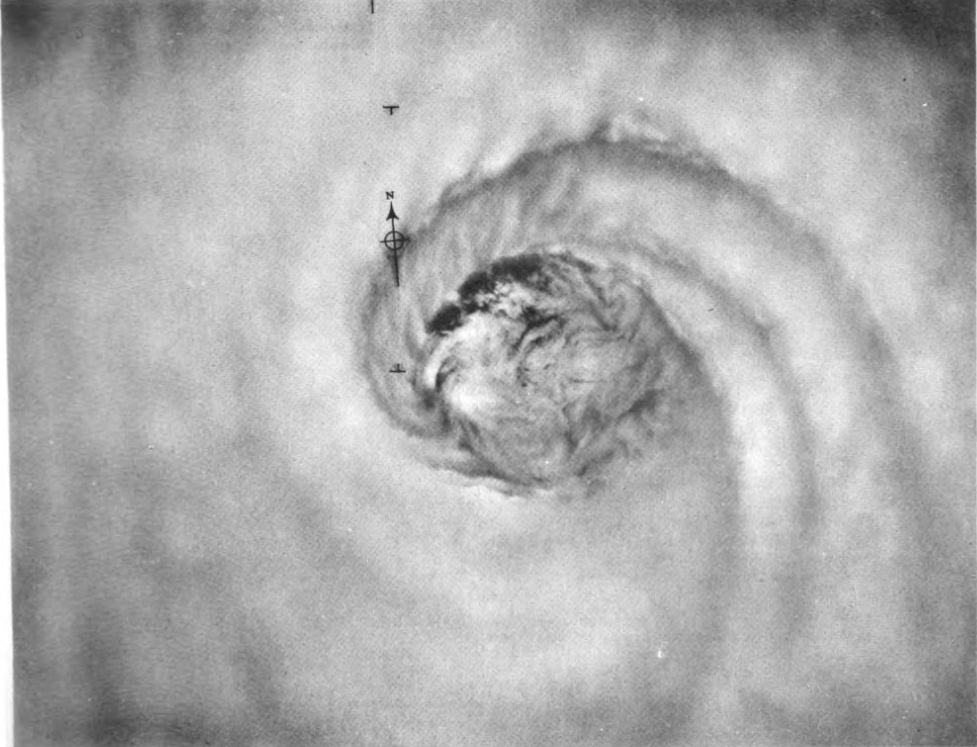 A look down into the eye of severe tropical cyclone(typhoon Ida of 1958)as seen by a high-flying U-2 aircraft.When the picture was taken on September 25,typhoon Ida was a most severe cyclone with central pressure 877 mb and maximum sustained surface winds above 200kt.Photo courtesy Directorate of Scientific Services,Air Weather Service,U.S.Air Force.